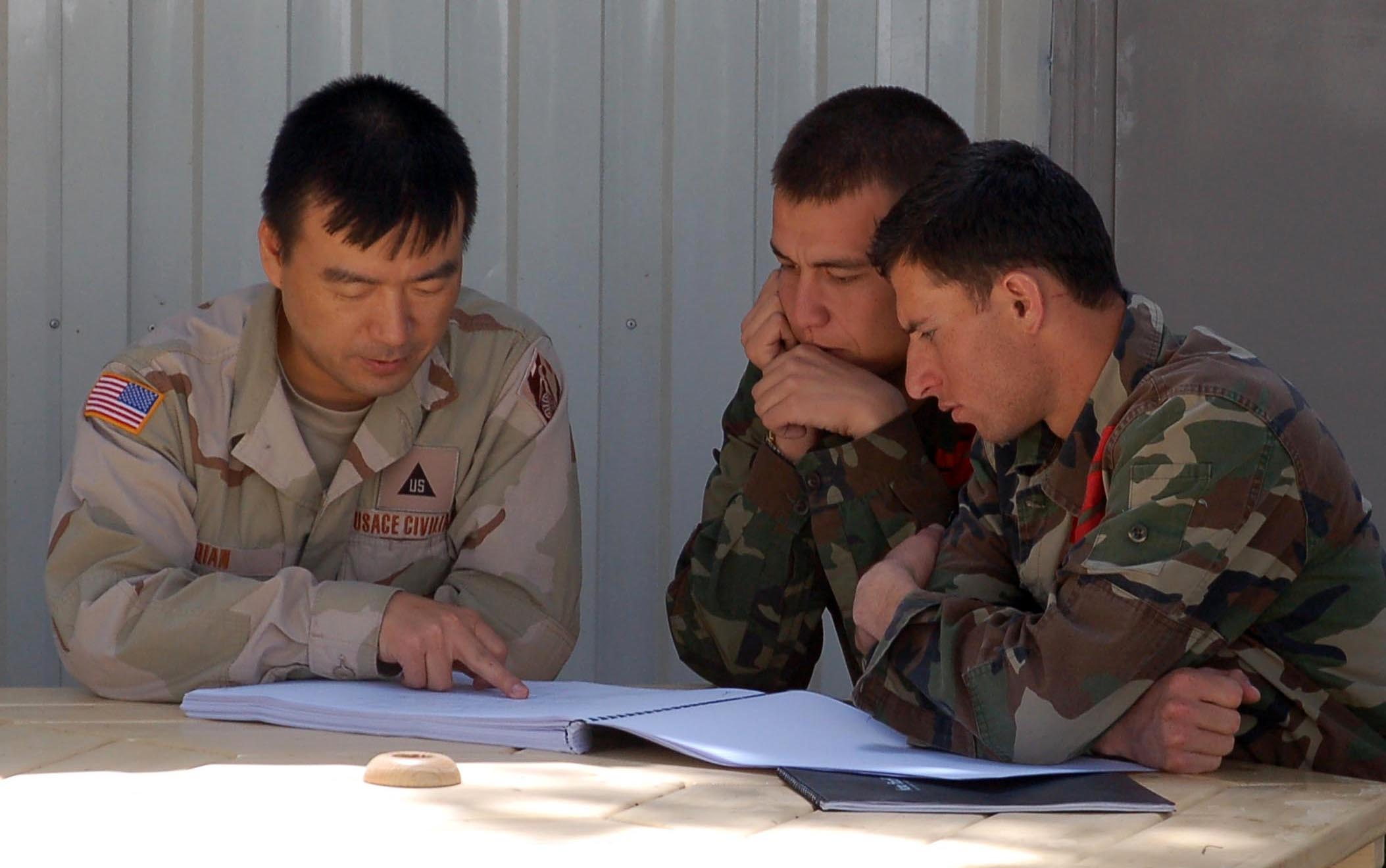 Charley X. Qian, Afghan National Army program manager, goes over training material with Cadets Taher and Mahammad. The cadets were participating in a two-week internship program with the U.S. Army Corps of Engineers. Photo by Master Sgt. Mark W. Rodgers, USA